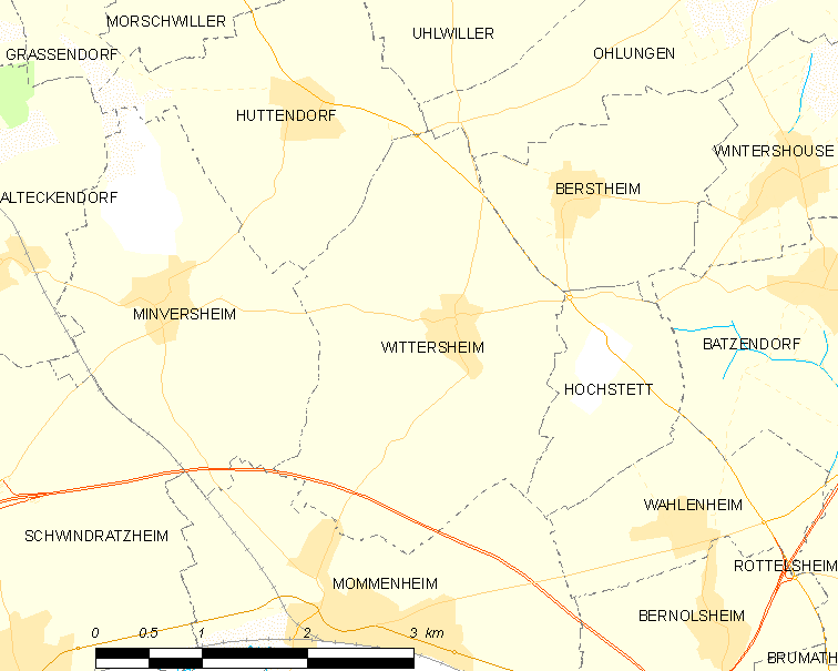 Map of French municipality